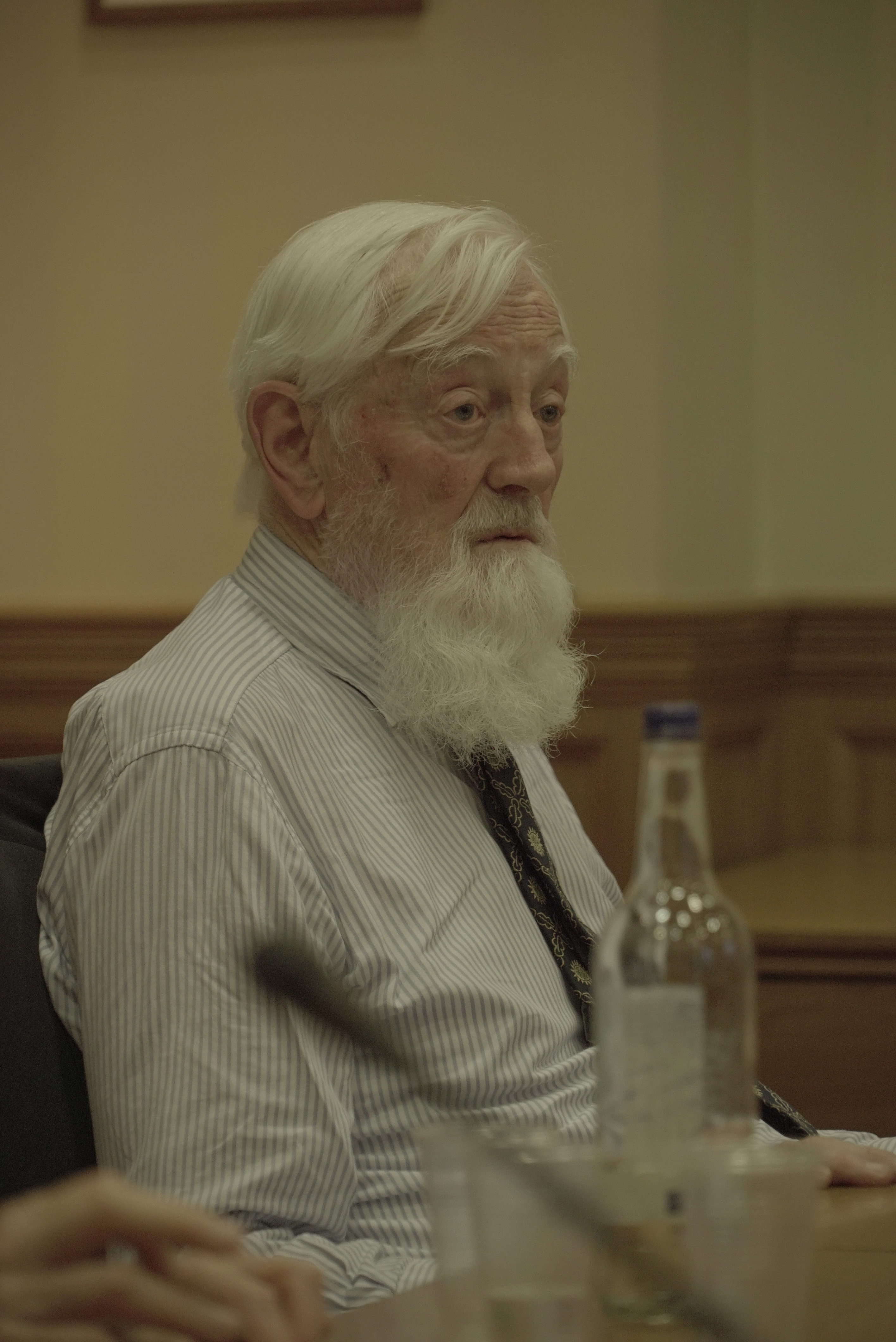 Raymond Jolliffe, 5th Baron Hylton at a UK parliamentary event on Turkish politics , OxfordBarons in the Peerage of the United Kingdom Crossbench